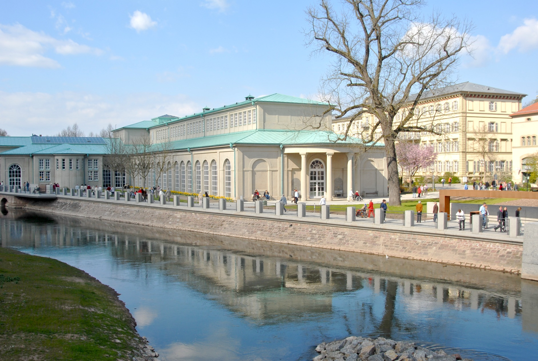 Bad Kissingen, Boardwalk